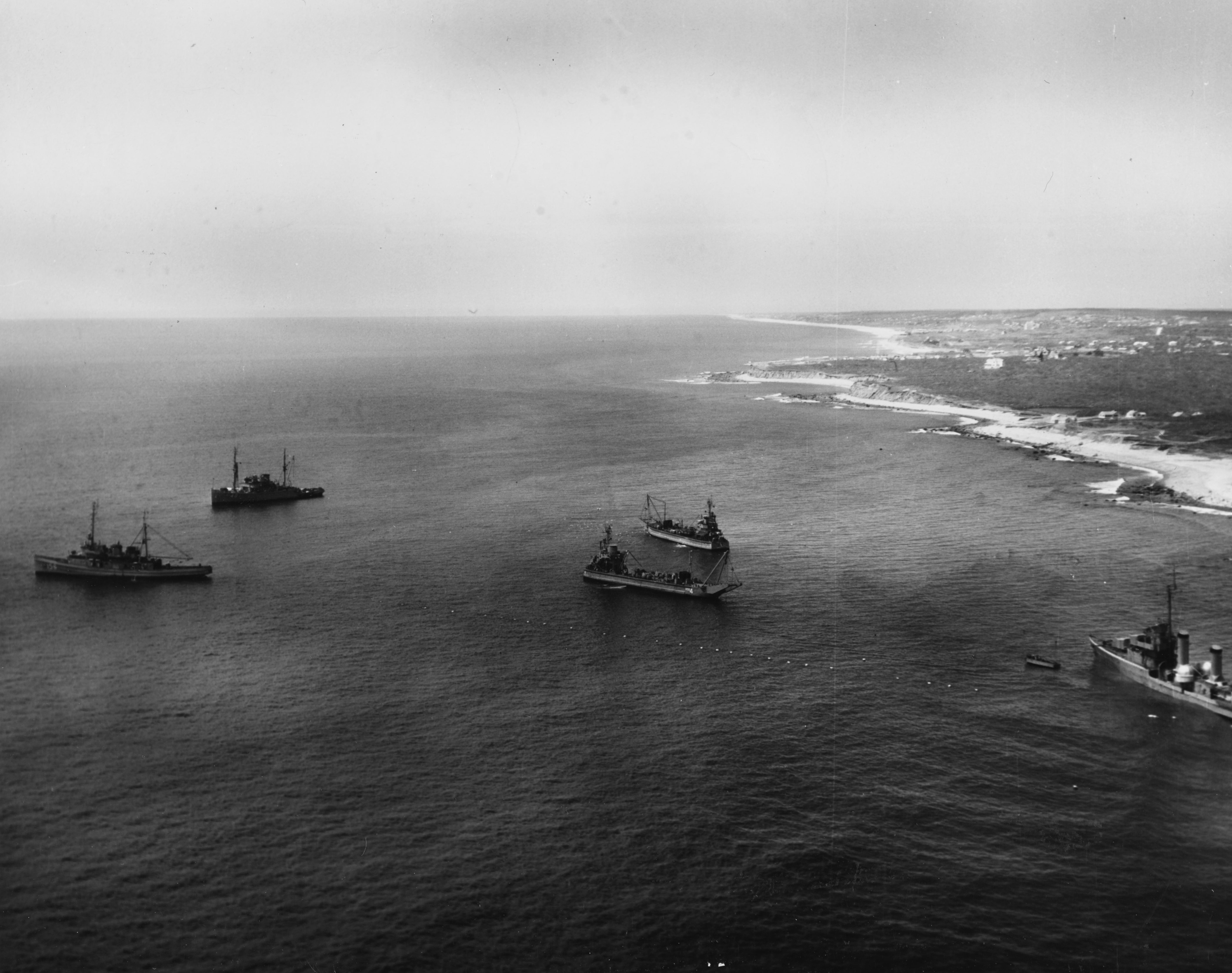 The U.S. Navy destroyer USS Baldwin (DD-624) during operations to refloat her at Montauk Point, Long Island, New York (USA), at 1030 hrs. on 28 April 1961. Among the ships engaged in the salvage effort are USS Hoist (ARS-40), USS Salvager (ARSD-3), USS Windlass (ARSD-4) and a fleet tug (ATF). Baldwin was decommissioned on 20 June 1946 and laid up. In April 1961, she was to be transferred from Boston, Massachusetts (USA), to Philadelphia, Pennsylvania (USA). Baldwin ran aground about 3.2 km southwest of Montauk Point, Long Island, in the early afternoon of 16 April 1961 when the towline parted during the passage to Philadelphia. Windlass successfully pulled her free. However, Baldwin was considered not worth repairing. Her name was struck from the U.S. Navy List on 1 June 1961, and she was scuttled on 6 June 1961, not far from where she went aground.